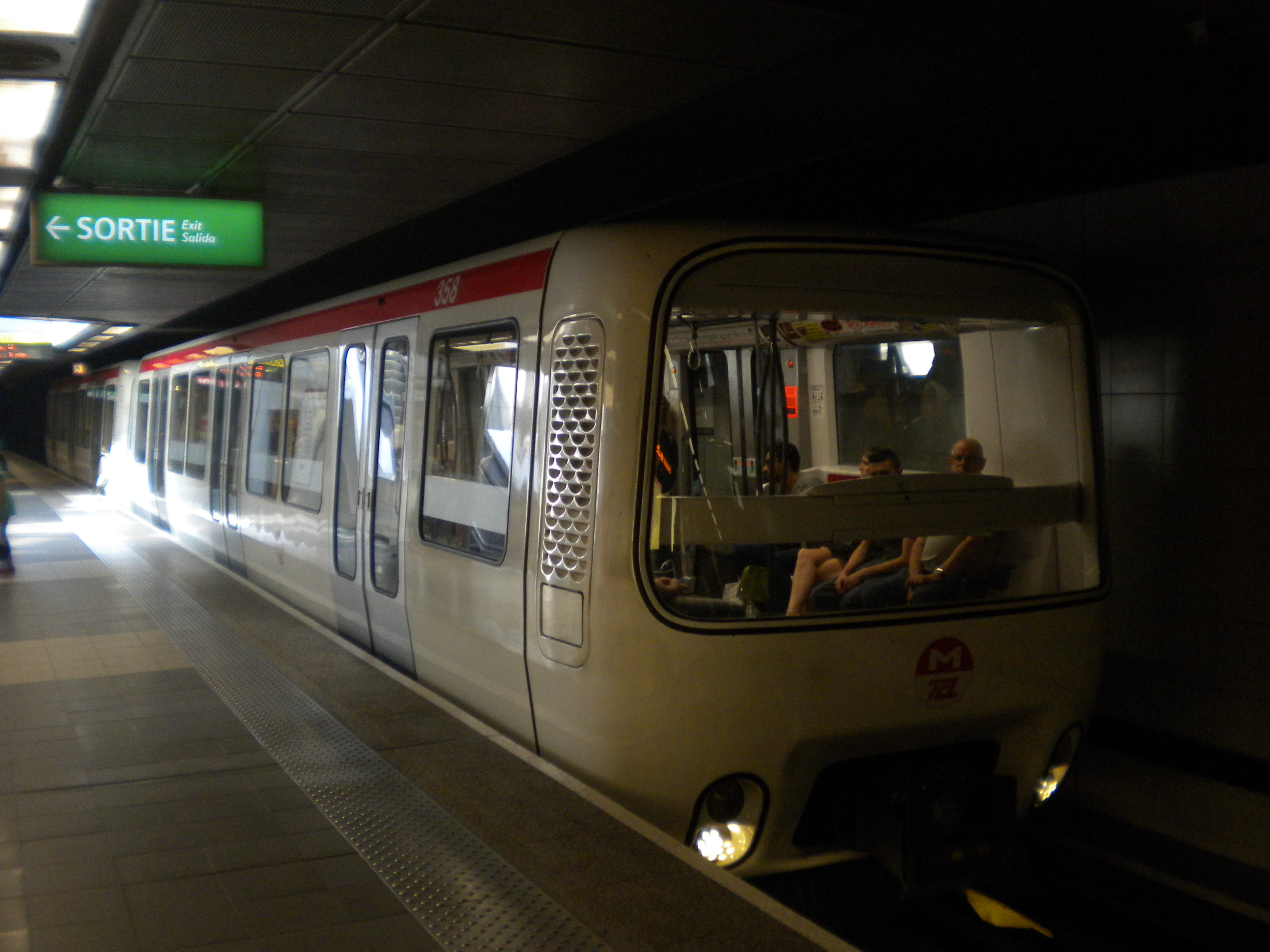 MPL85-Train of Line D in station Grange-Blanche